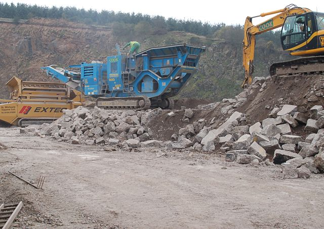 Recycling an airfield N03. The blue machine is a mobile crusher which is fed the large concrete by the yellow 360° degree excavator (JCB) on the right of shot. The crusher extracts much of the soil and then crushes the concrete into lumps around 2inch/50mil in size before feeding them out along the conveybelt on the ramp at the left end. From there the material either forms a cone for shifting elsewhere or as in this case it is fed directly into an Extec screener. Next stage 379759